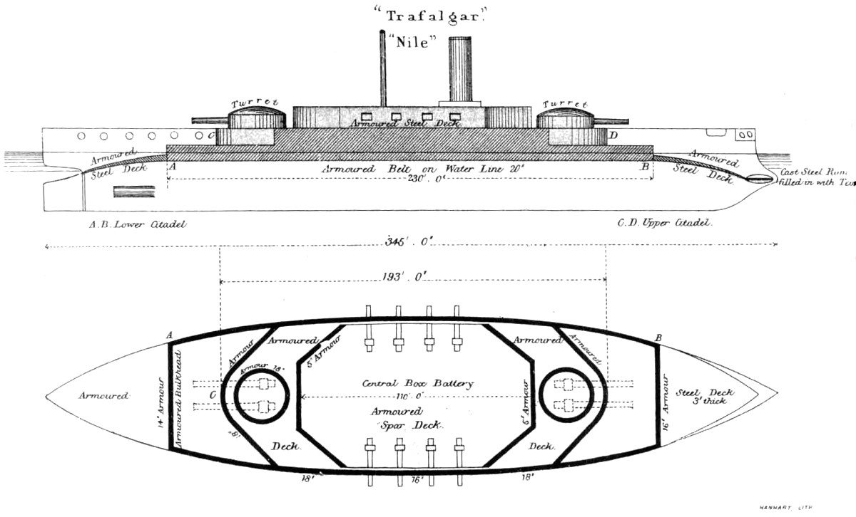 Starboard elevation, deck plan and sectional views of British Trafalgar class battleships. This shows the original planned secondary armament of eight 5-inch guns : in fact they were completed with six 4.7-inch guns.